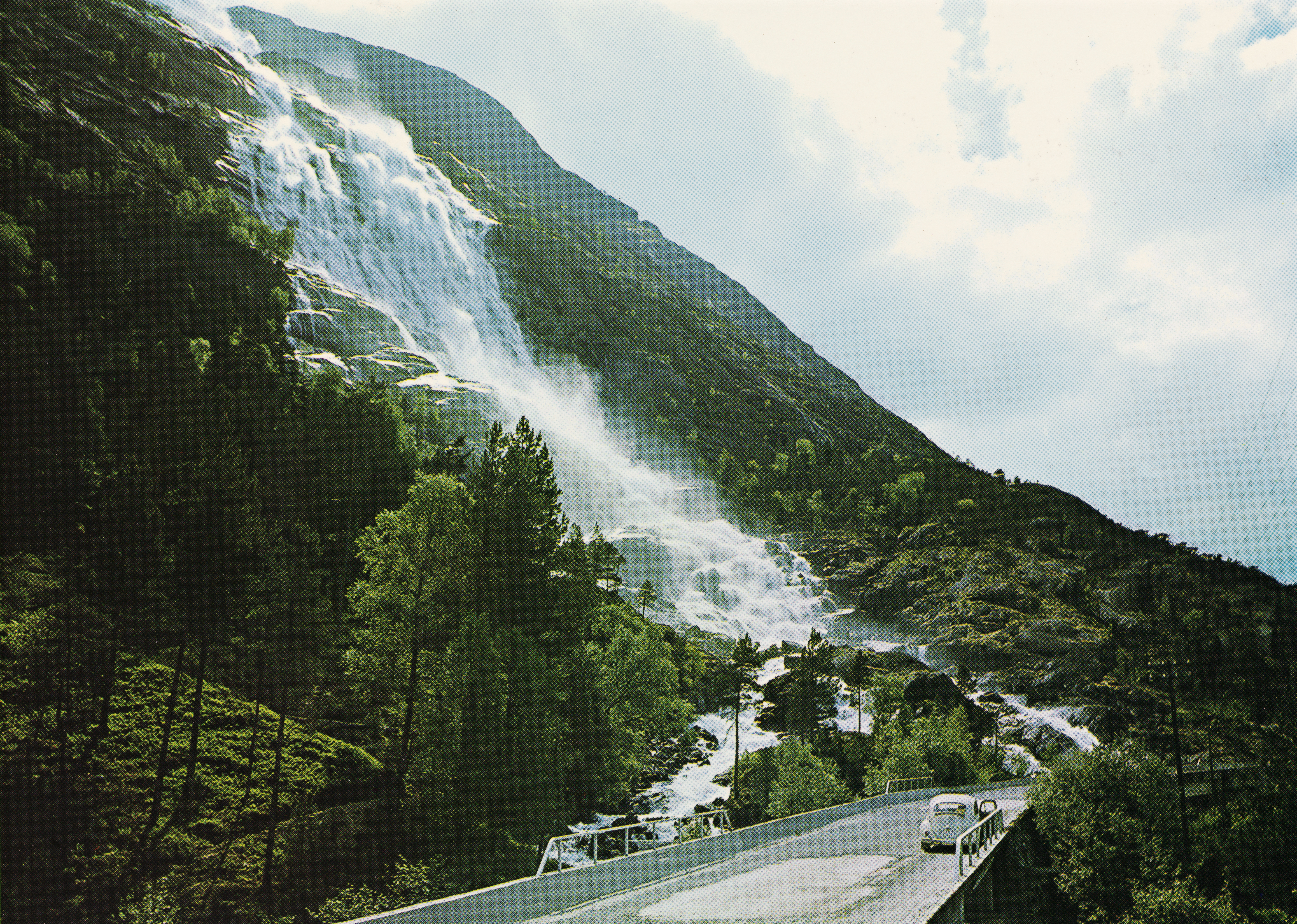 Beskrivelse / Description: Postkort Dato / Date: slutten av 60-tallet Sted / Place: Hordaland, Etne, Langfoss, Åkrafjorden Fotograf / Photographer: Normann Utgiver / Publisher: Normanns kunstforlag AS Digital kopi av original / Digital copy of original: trykt postkort, farge Eier / Owner Institution: Nasjonalbiblioteket / National Library of Norway Lenke / Link: Bildesignatur / Image Number: blds_05921